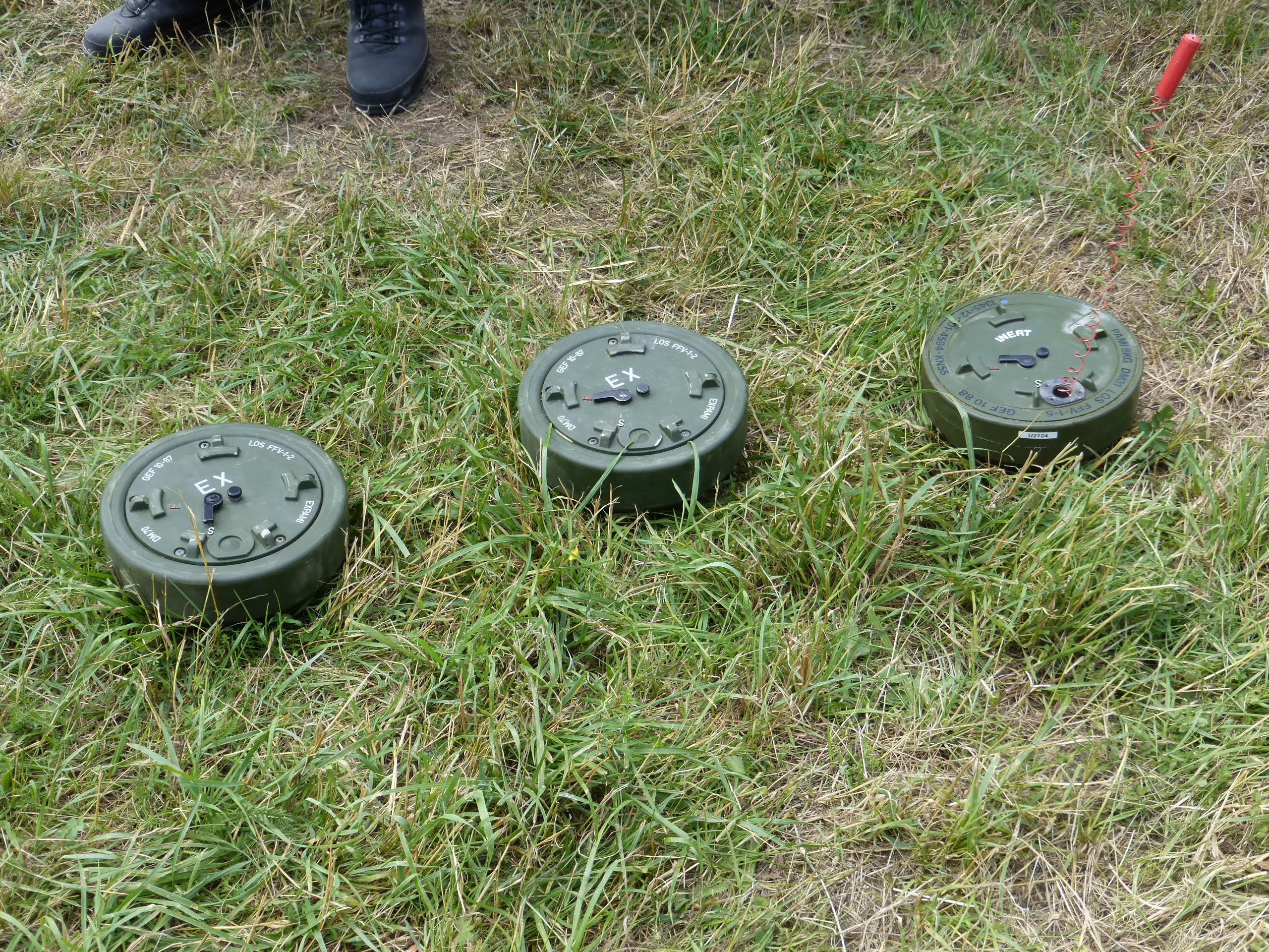 Anti-tank-mines at the "Day of the Bundeswehr 2018" in Ingolstadt, Bavaria